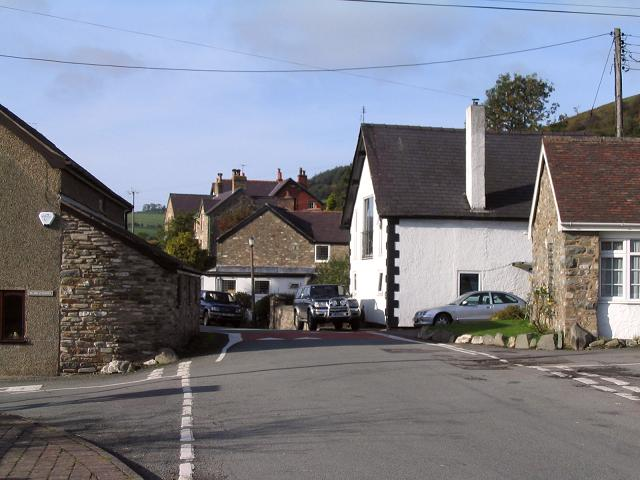 Tregeiriog, near to Tregeiriog, Wrexham/Wrecsam, Great Britain. Tregeiriog means 'hamlet by the [river] Ceiriog'.